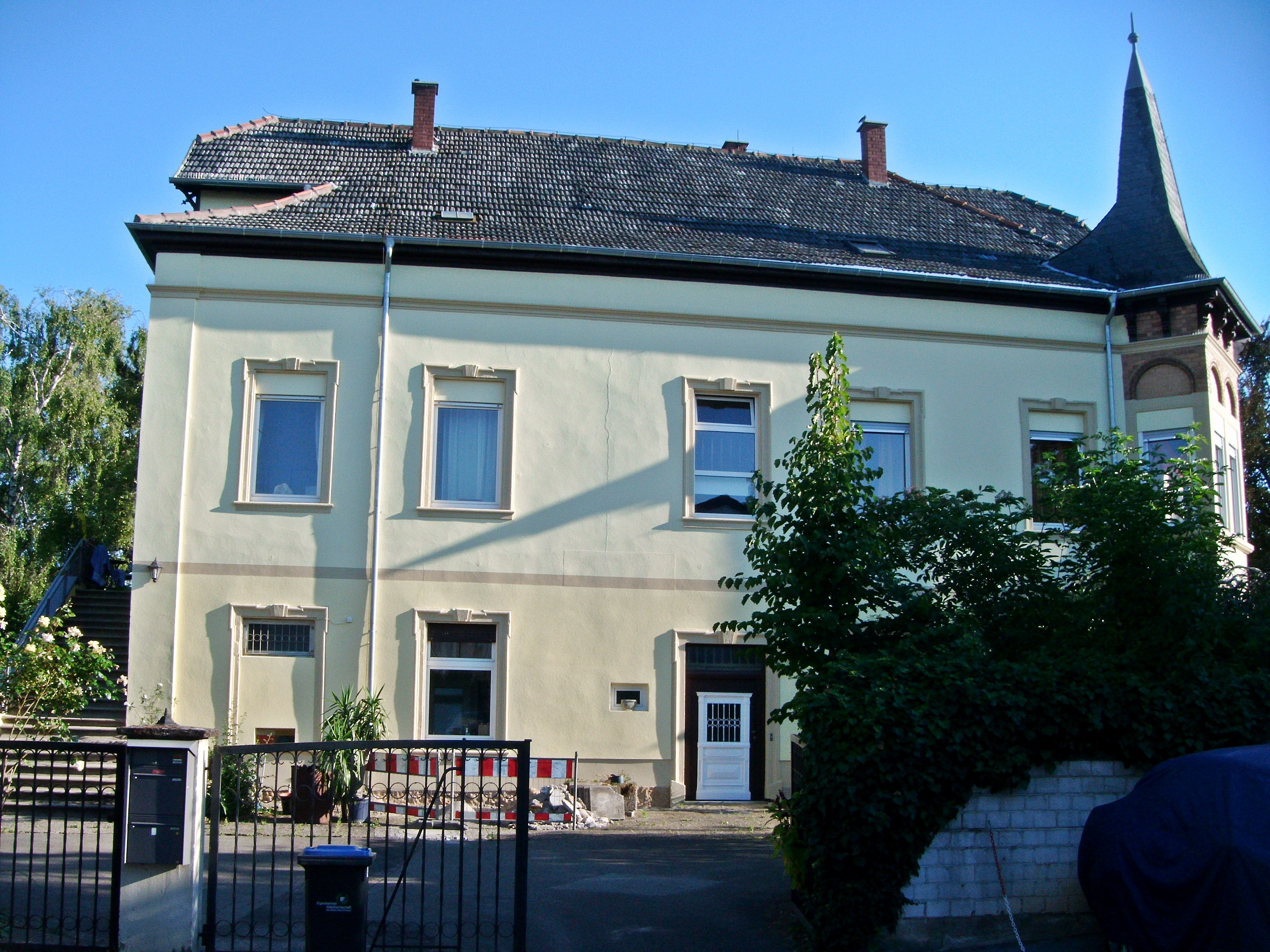 Lambsheim Jagdschloss von Norden